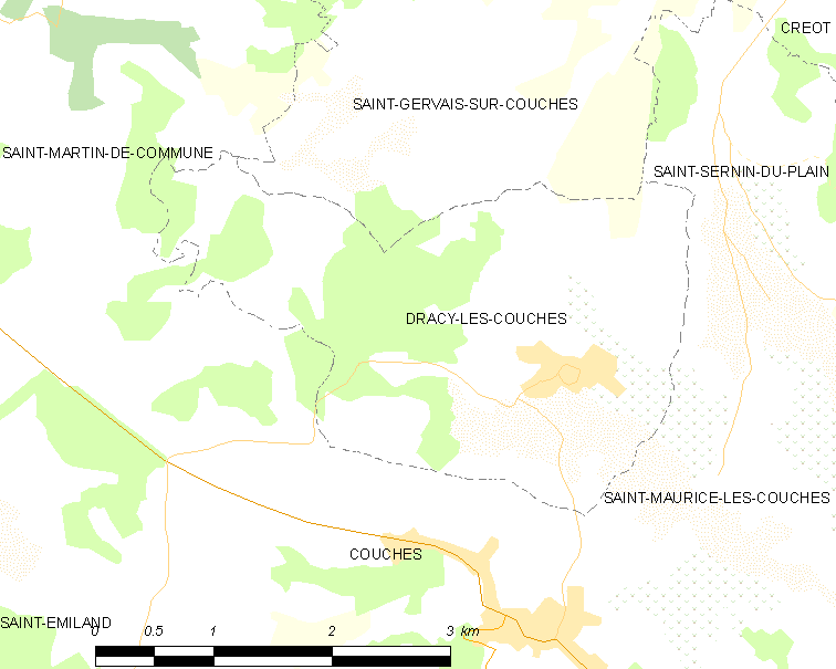 Map of French municipality